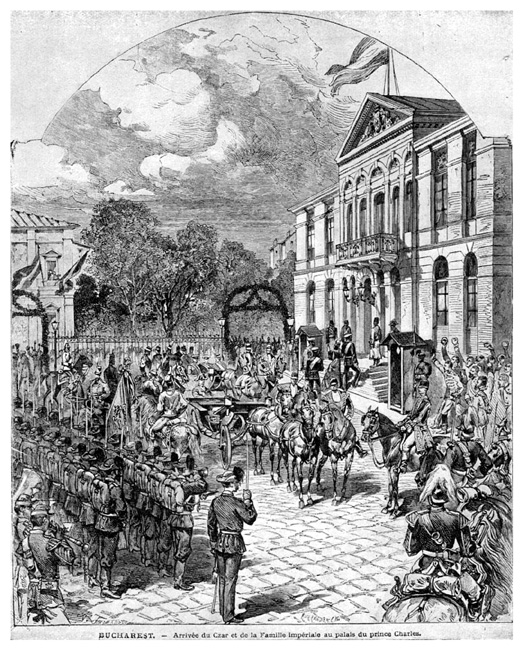 Arrival of Tsar Alexander II, Bucharest, 1877